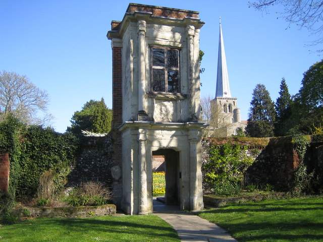 The Charter Tower, Hemel Hempstead, Hertfordshire. The tower is so named because local legend has it that Henry VIII stayed with Anne Boleyn in Hemel in 1539, and handed down Hemel Hempstead's market Royal Charter from the upper window, as a mark of gratitude for the hospitality he had received. But the tower was originally the entrance to Bury House which was rebuilt for Sir Richard Combes (or Combe or Coombe) and his family between 1540 and 1595, so the story is probably mythical. Through the tower is a glimpse of the Walled Garden, which is the site of the original Bury House. The spire of St Mary's parish church 407742 is in the background.